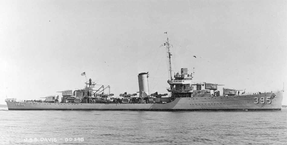 The U.S. Navy destroyer USS Davis (DD-395), circa in 1939.